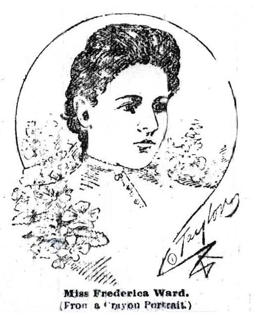 An earlier crayon portrait of Frederica Ward. From the Appeal Avalancche Newspaper, Memphis, TN.